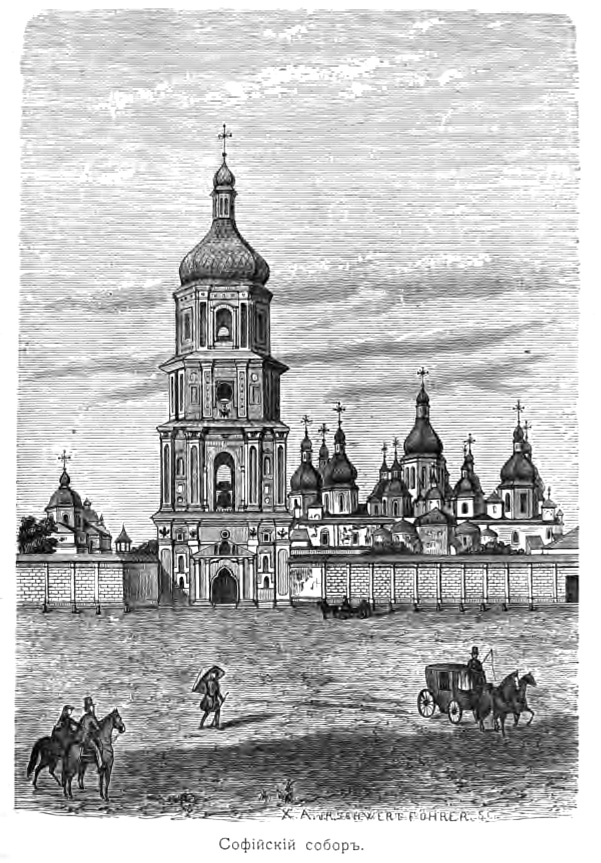 Saint Sophia Cathedral in Kiev, Ukraine